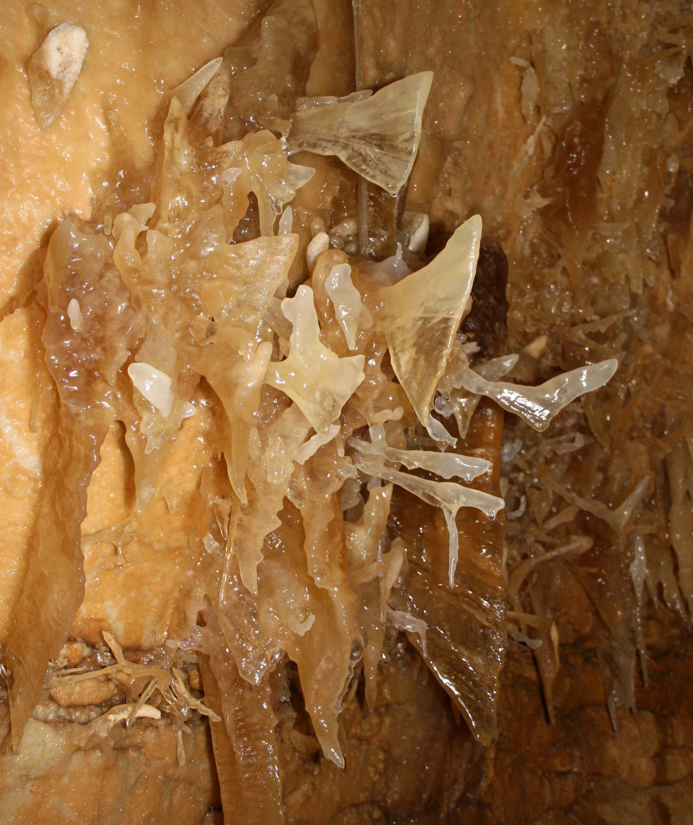 Picture taken by User:DanielCD in July 2006. Formation is of "fishtail" helictites in the Caverns of Sonora near Sonora, Texas.